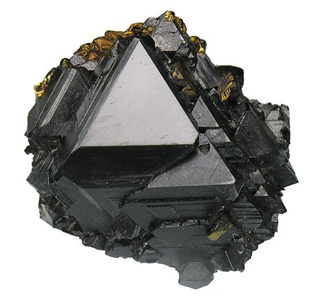 Sphalerite Locality: Idarado Mine, Telluride, Ouray District (Uncompahgre District), San Miguel County, Colorado, USA (Locality at ) Size: 2.3 x 2.3 x 1.2 cm. A very good representative Sphalerite from the Replacement Ore Body of the Idarado mine. The crystals show very sharp, tetrahedral form (with minor modifications) with a lustrous jet black appearance. There is some minor associated Chalcopyrite on around the edges of the specimen as well. Ex. Jaime Bird Collection.